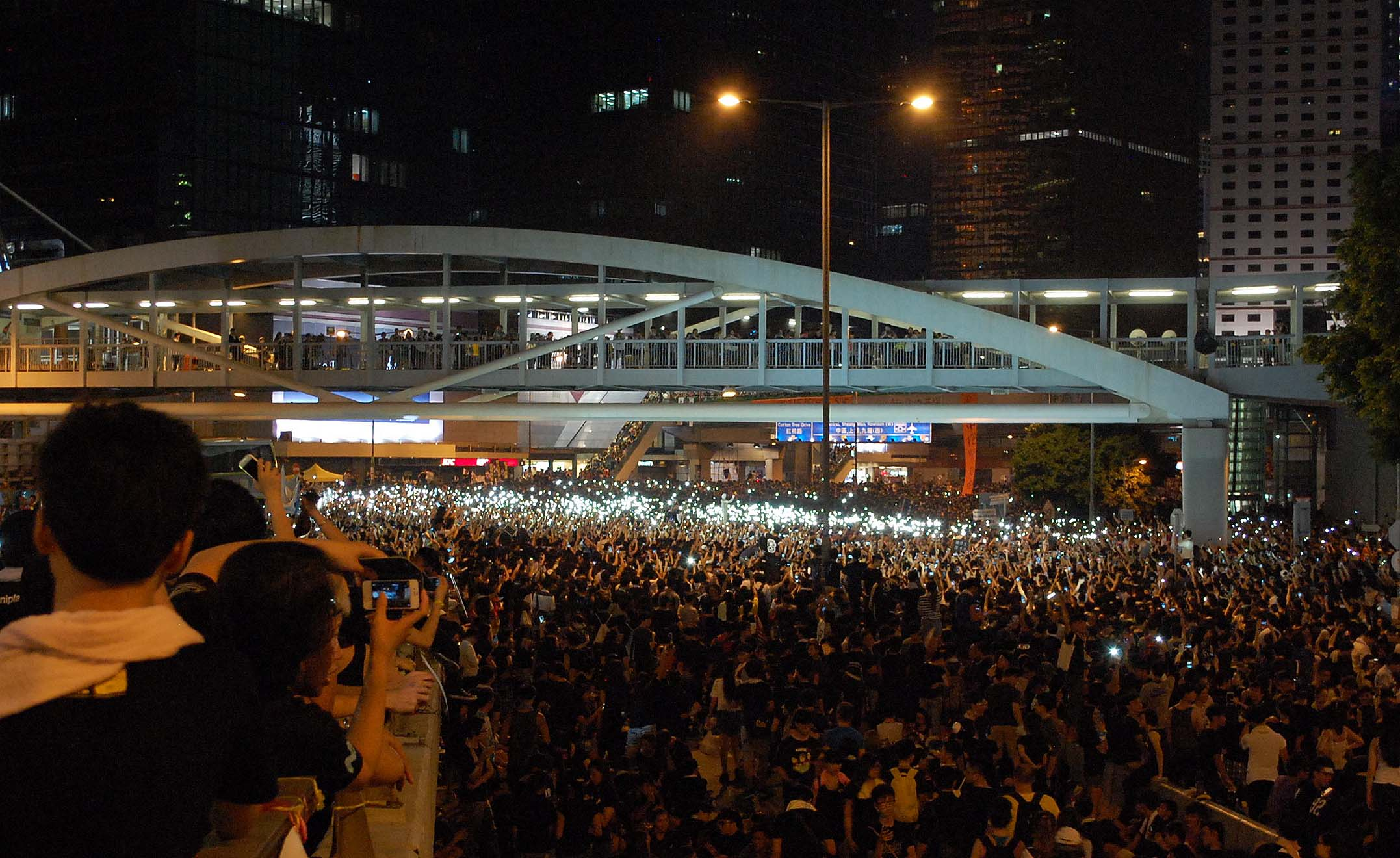 Protesters occupying Harcourt Road, Admiralty hold a "candlelight vigil" (with mobile phones) during Occupy Central, 2014 Hong Kong protests.